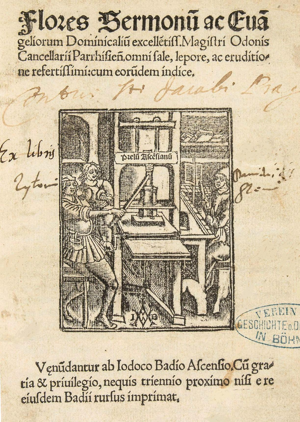 The only printed edition of the sermons of the English monk Odo of Cheriton, Flores Sermonum ac Evangeliorum Dominicalium - library copy with old ink stamp and annotations on title, small 4to, Josse Badius Ascensius, Paris 1520